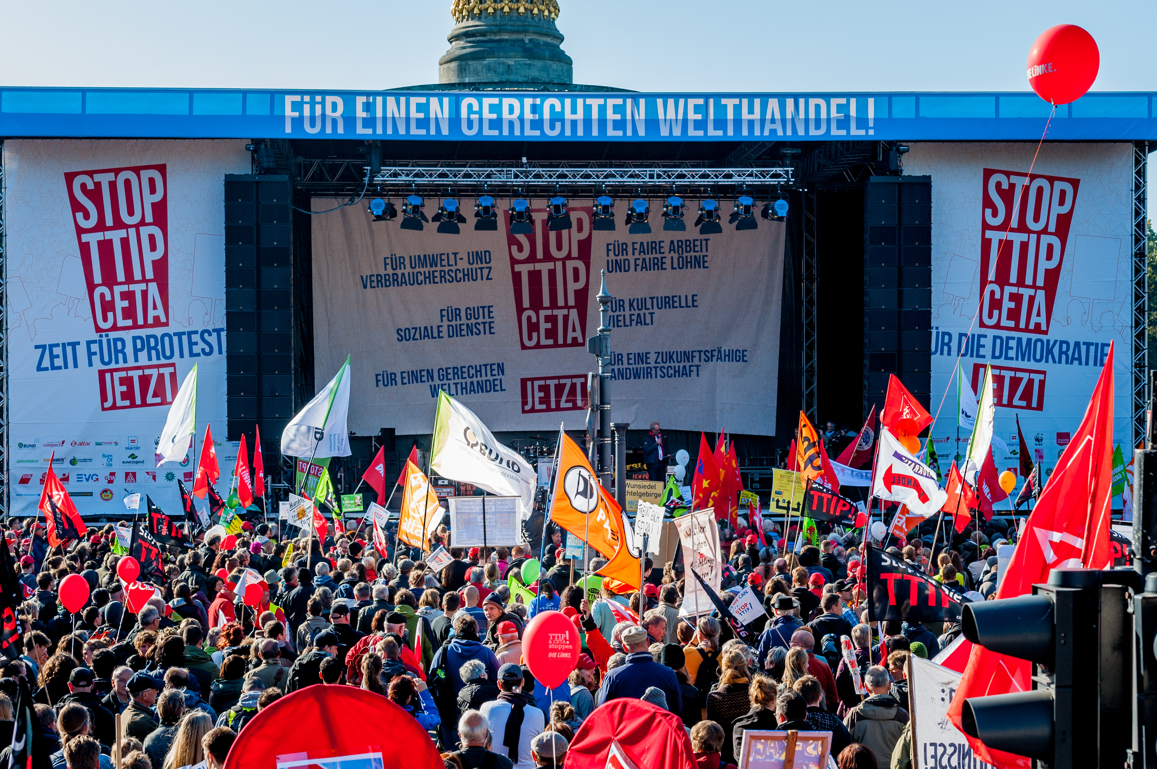 foodwatch, STOP TTIP CETA 10.10.2015 Belin